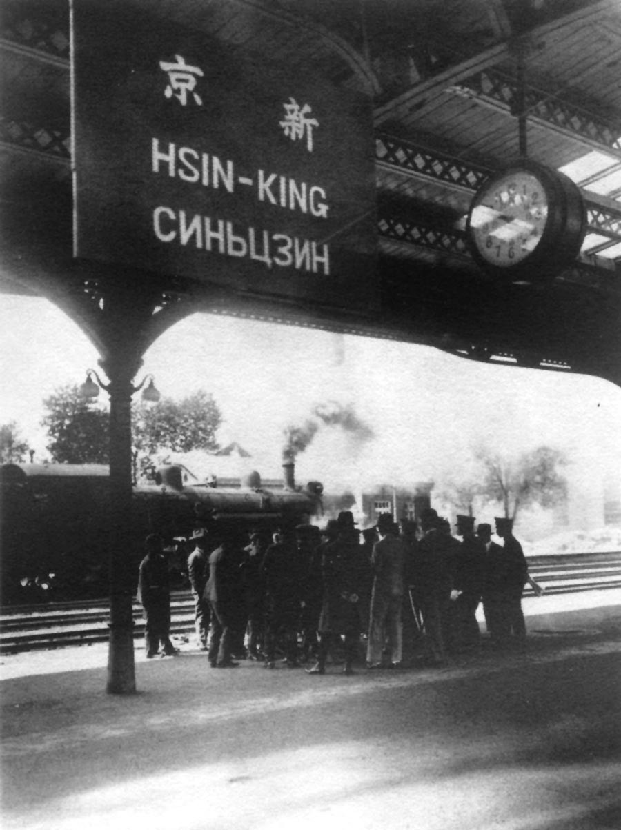 Hsin-king Station, Hsin-king (Xinjing, now Changchun), Manchukuo